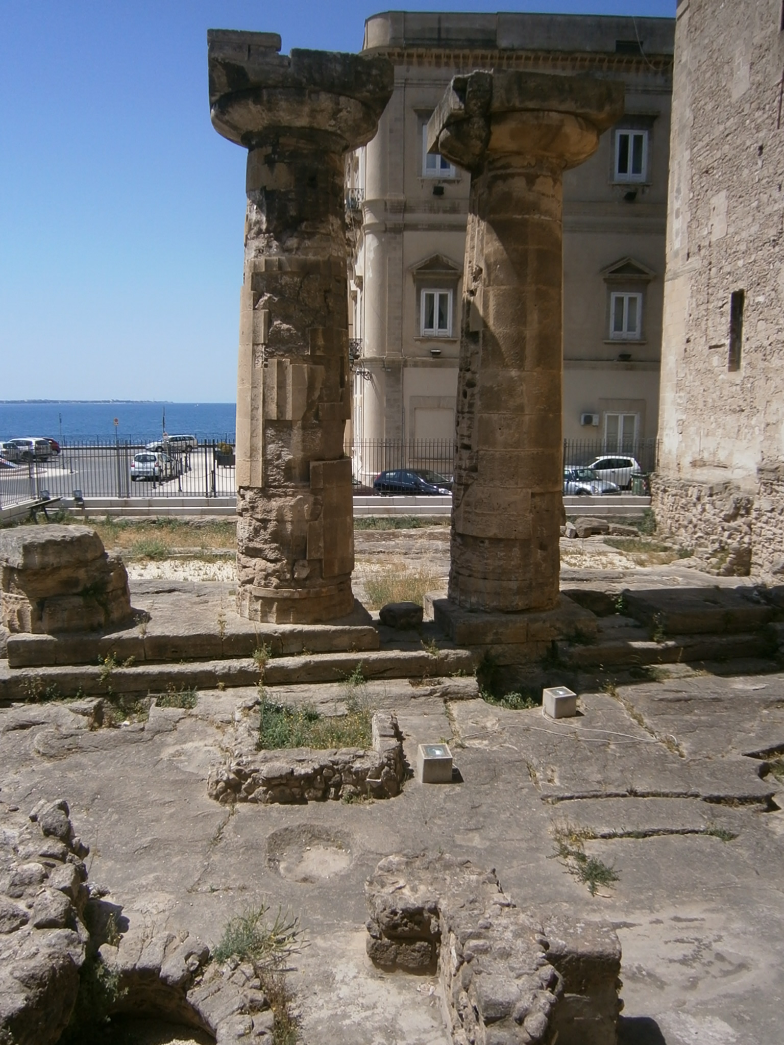 TARANTO-ITALIA